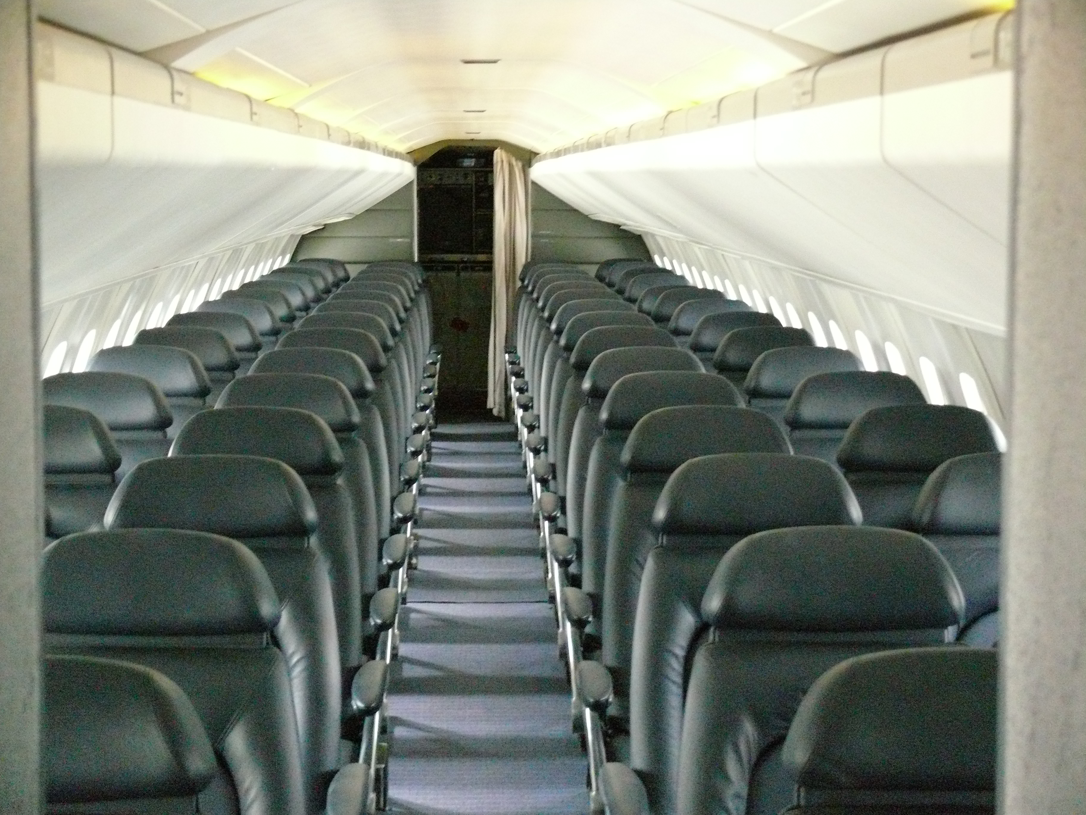 Concorde in the Intrepid Sea-Air-Space Museum. This aircraft, serial no. 100-010 (G-BOAD), first flew on August 25, 1976 and served with British Airways until November 2003. It set a speed record for passenger airliners on February 7, 1996 when it flew from New York to London in 2 hours, 52 minutes and 59 seconds.